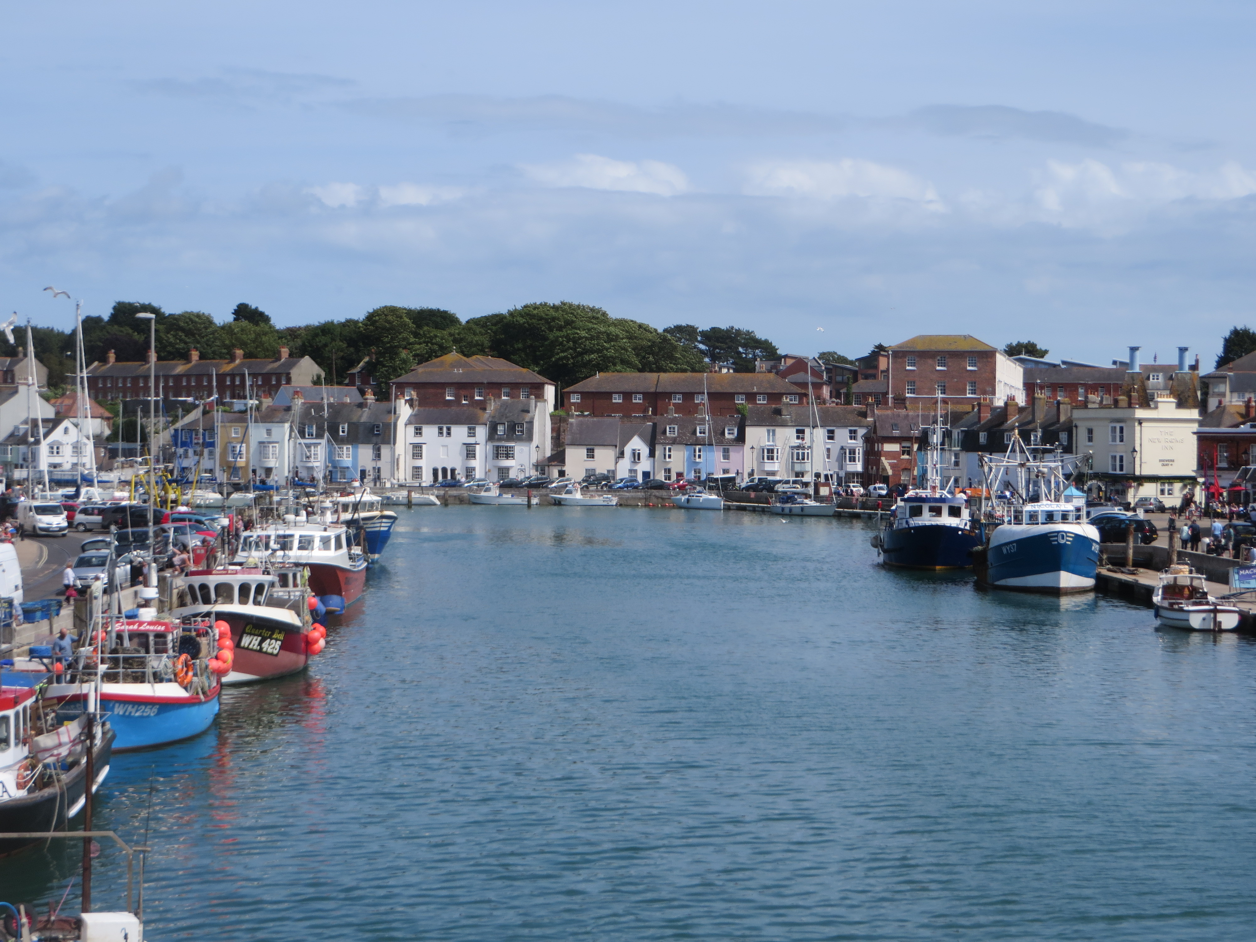 View of Weymouth Harbour from Weymouth Town Bridge, with Nothe Parade on the harbour front and Wellington Court (formerly Red Barracks) in the background, in Weymouth, Dorset, southern England.